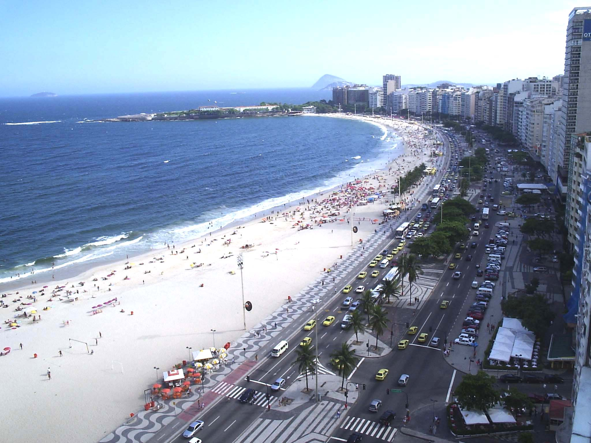 Copacabana Beach, Rio de Janeiro, Brazil.